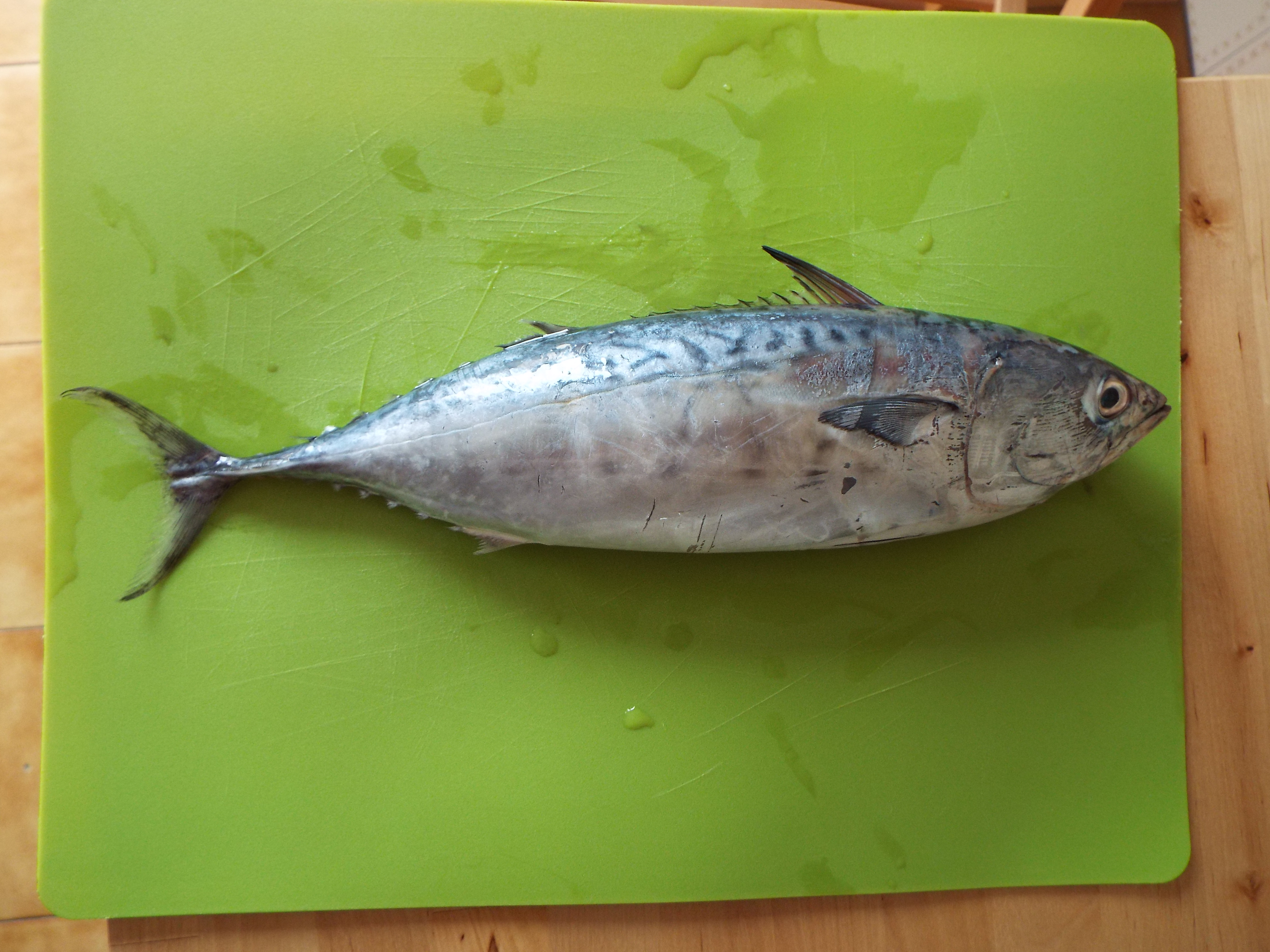 Euthynnus alletteratus bought in Grosseto fish market (Tuscany, central Italy).